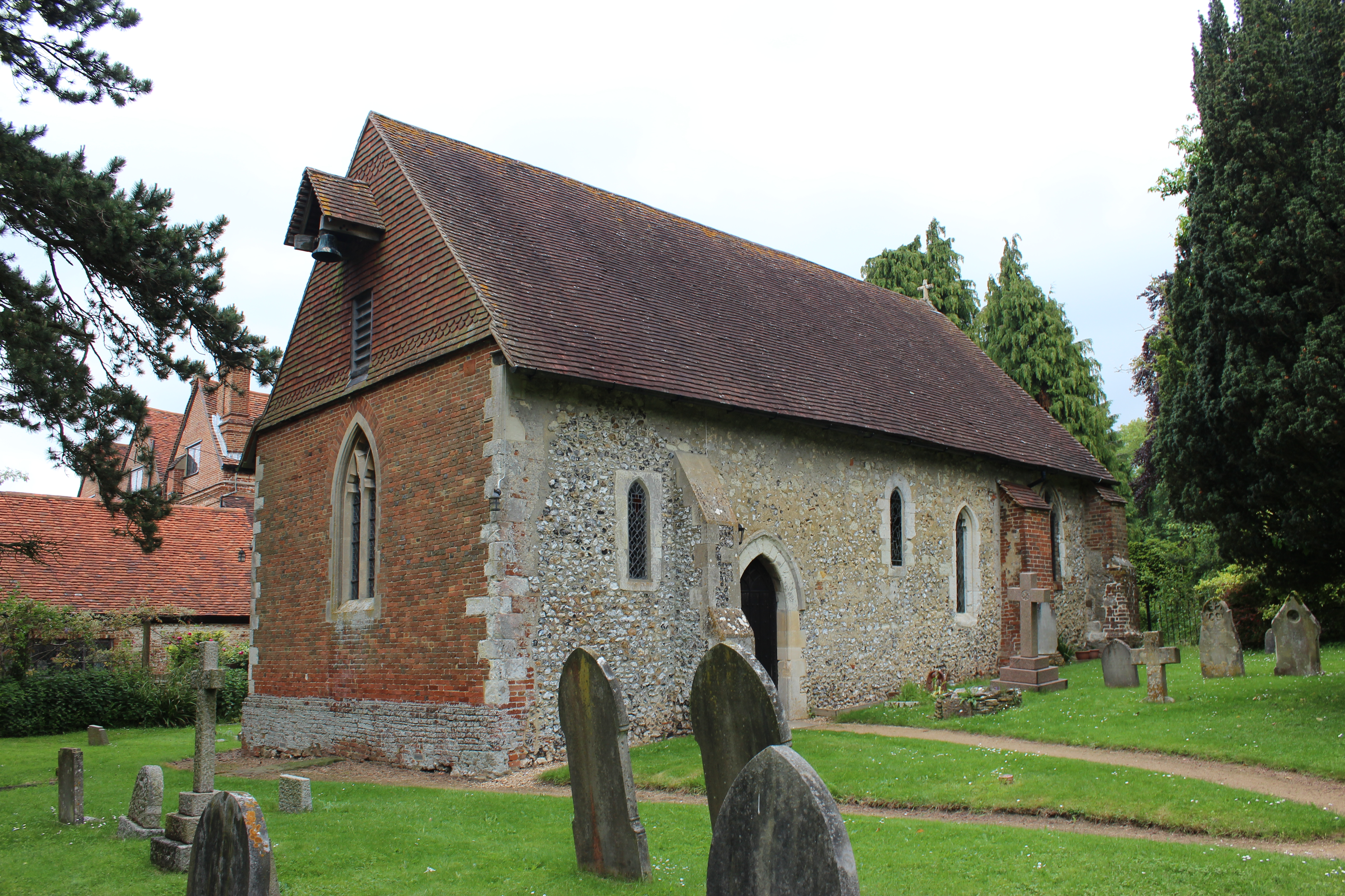 St Bartholomew's Church, Wanborough, Surrey